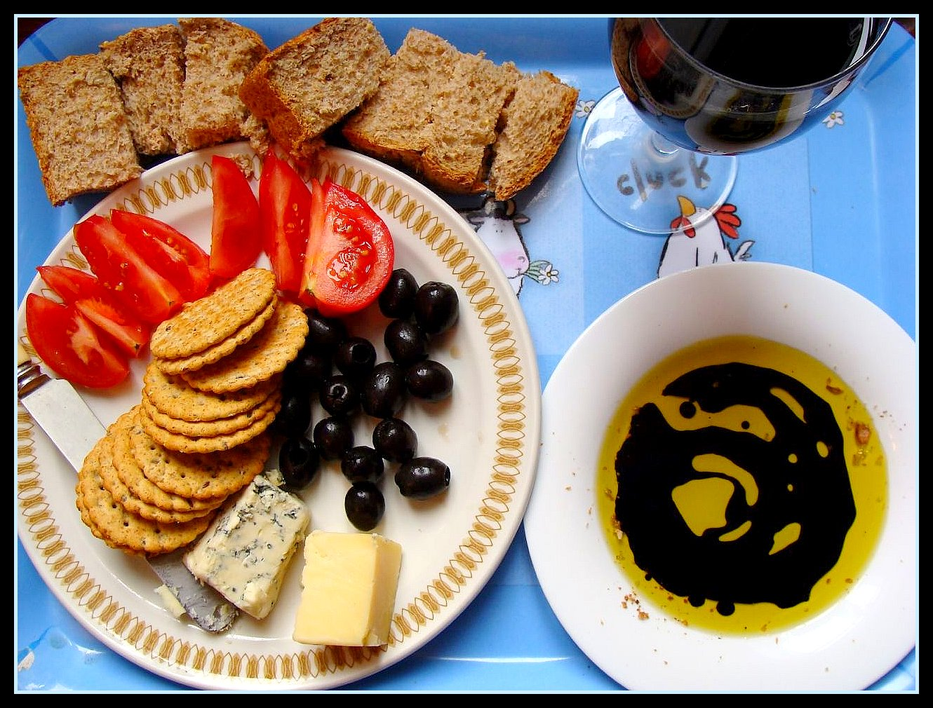 Menu french paradox